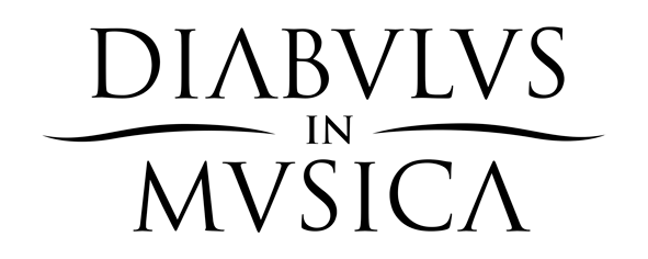 Is the logo of the Spanish band Diabulus in Musica that they use since 2014